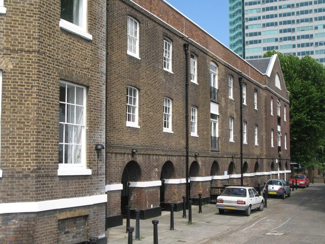 Flats on Deptford Strand, SE8